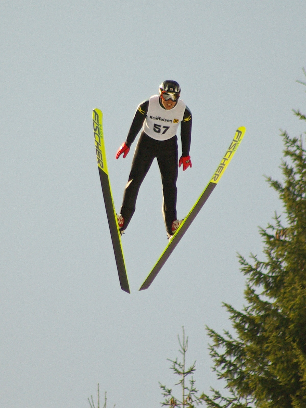 Japanese nordic combined skier Akito Watabe during the World Cup B sprint event in Eisenerz (Austria) on 9 March 2008.